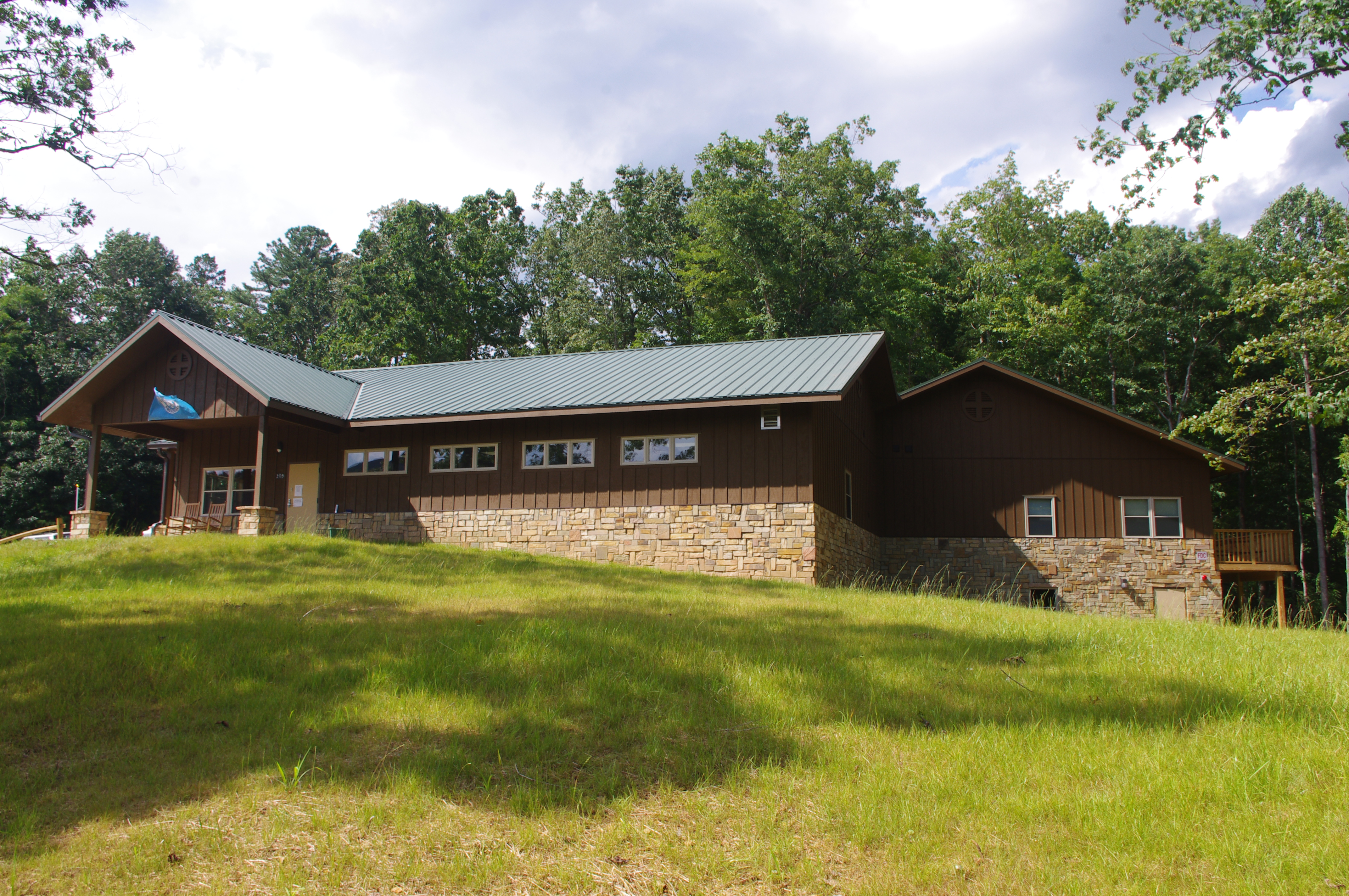 Built in 2012, this state-of-the-art facility has 4 examining rooms, a ward , and several improvements to make the facility handicap accessible. It also has a medicine dispensing room that enables our staff to quickly and safely dispense medications to scouts.